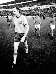 Bengt Lindskog, swedish footballplayer (1933-2008)